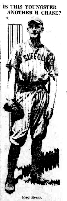 Baseball player Snake Henry, shown with the minor league Suffolk team.